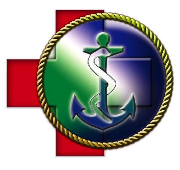 U.S. Navy Medicine logo